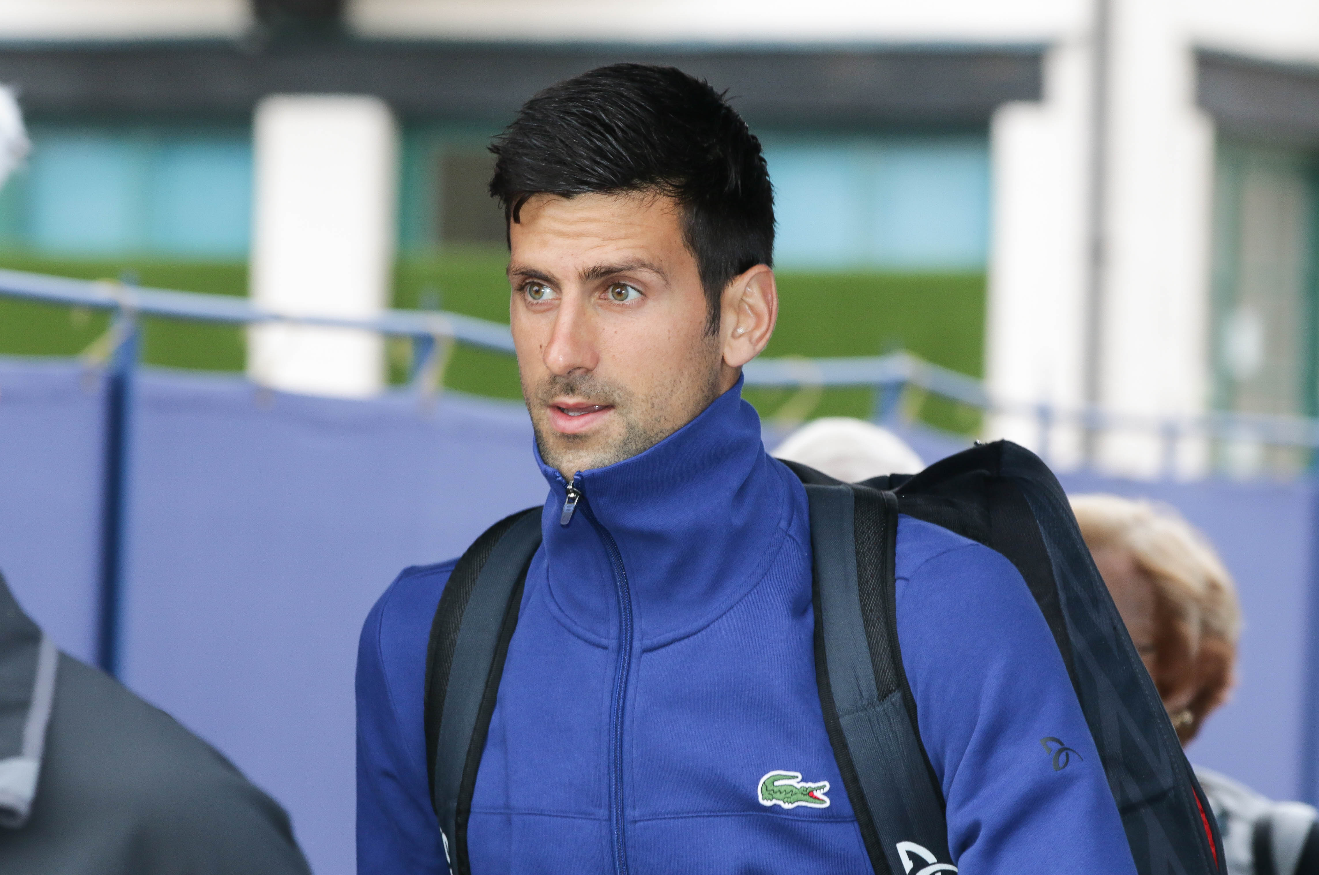 Eastbourne tennis 2017-12-2.jpg